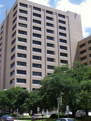 Robert Lee Moore Hall at the University of Texas at Austin